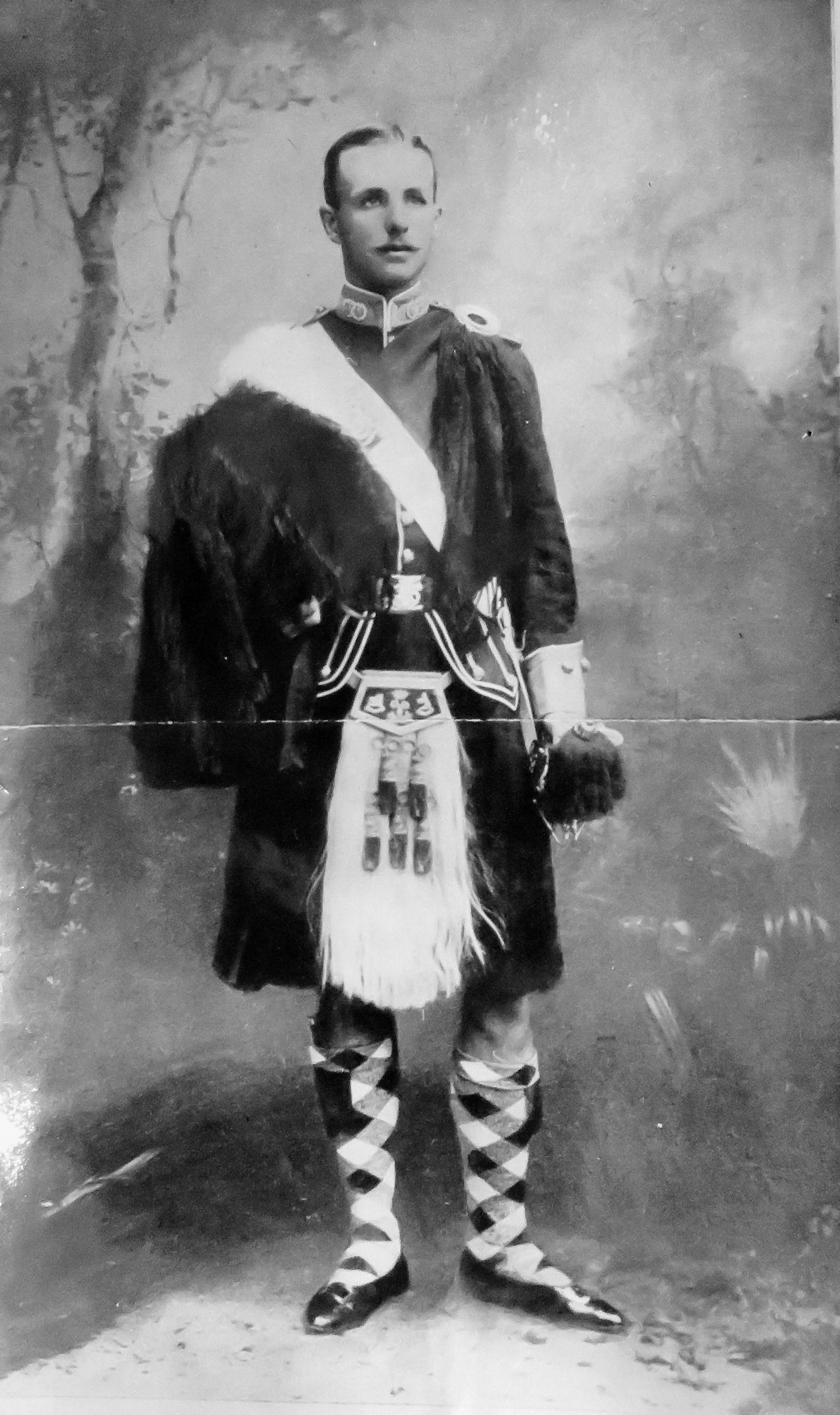 Photograph of Colonel Gordon Neilson (1876-1927)